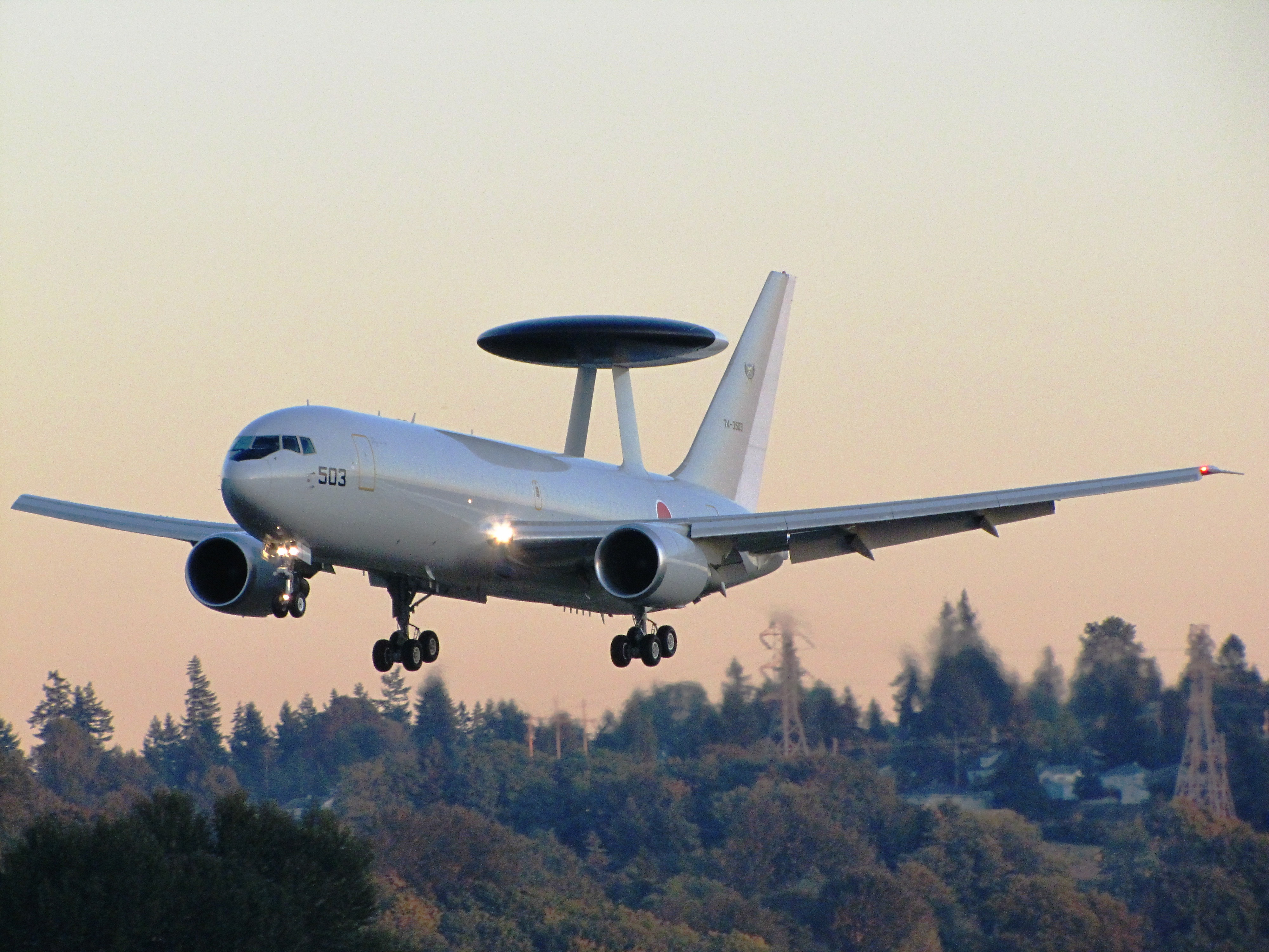 Japan Air Self Defense Force Boeing E-767 King County International Airport